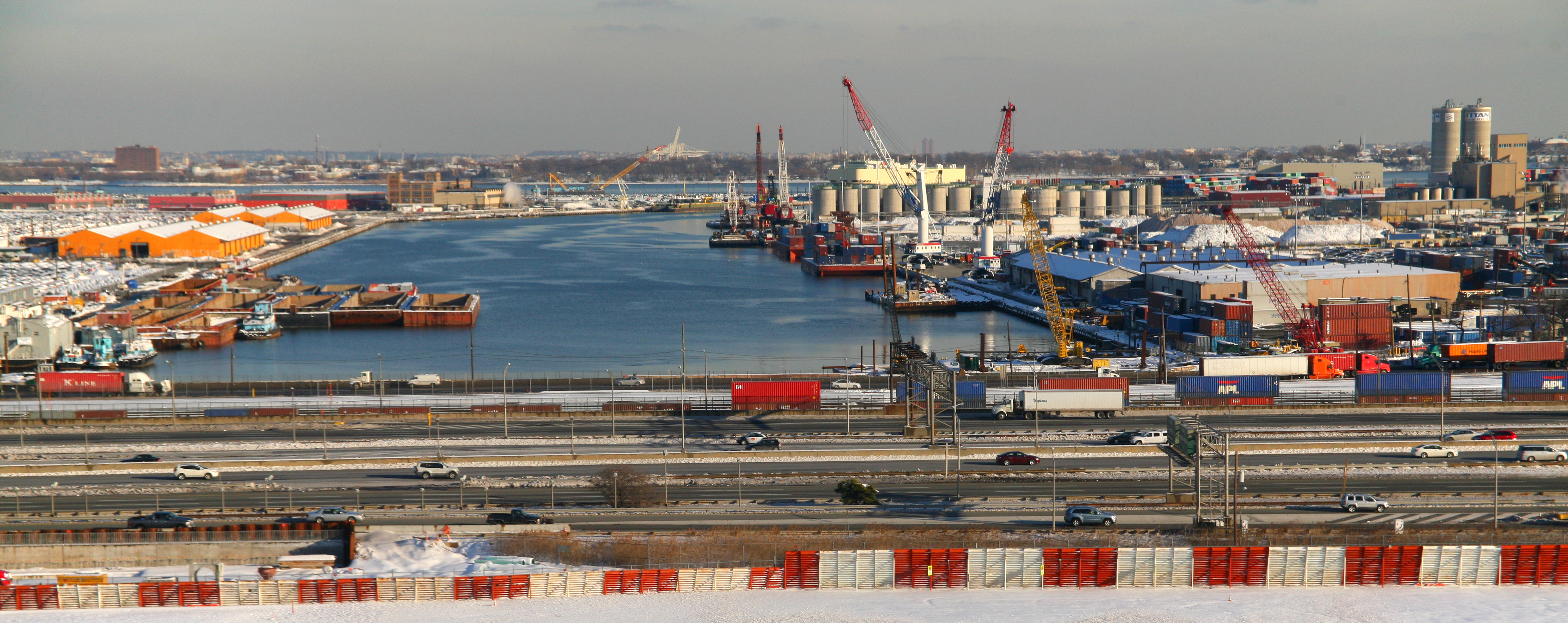 Port Newark part of the Port Newark Elizabeth Marine Terminal in the Port of New York and New Jersey across the New Jersey Turnpike from Newark Liberty International Airport (EWR).